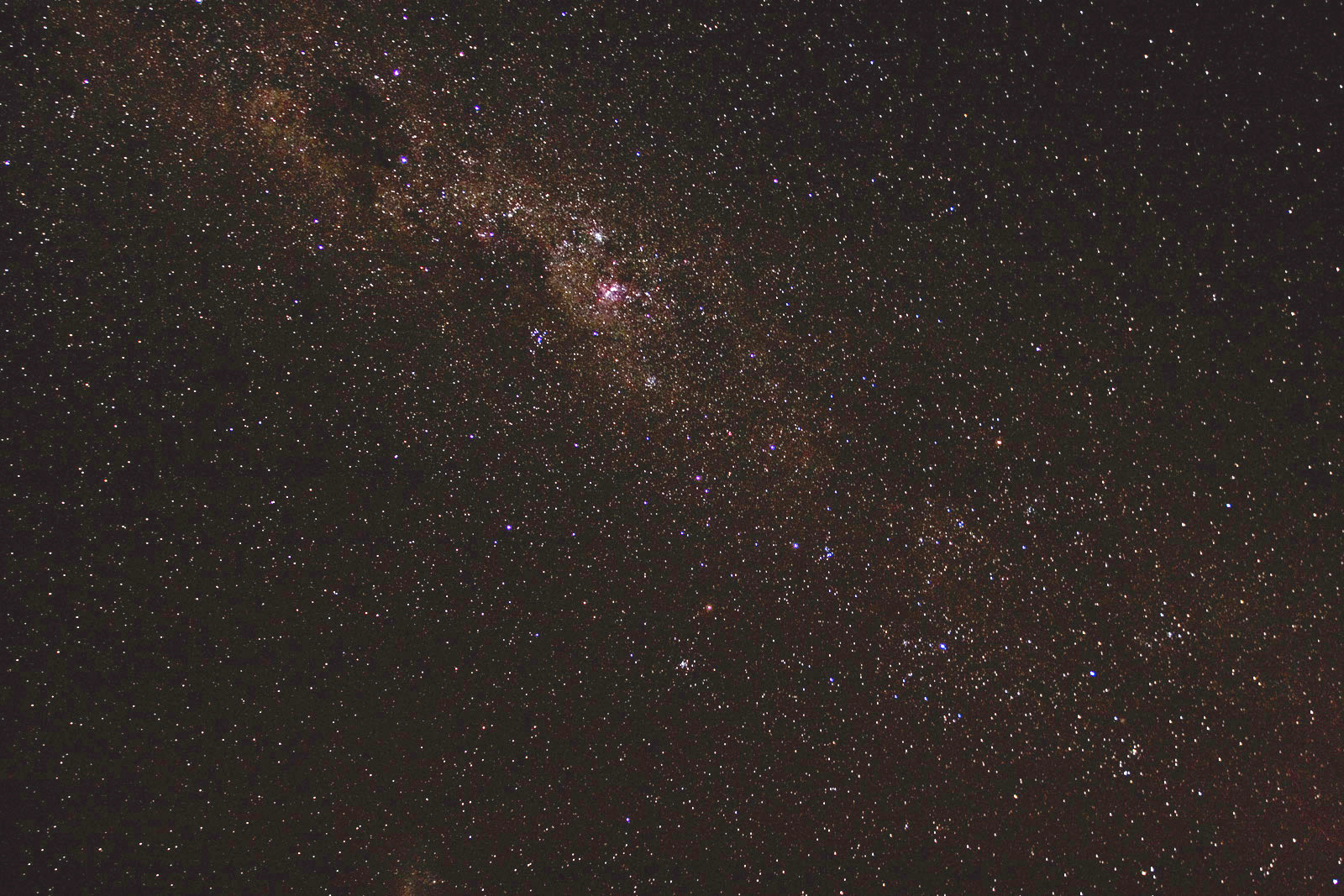 Milky Way southern hemisphere, revised picture